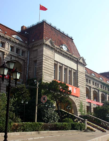 The front of Jiaozhou Governor's Hall in Qingdao, Shandong province, China.